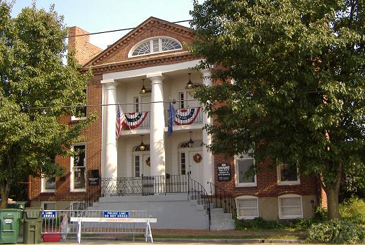 Front of the Grisamore House, located at 111-113 W. Chestnut Street in Jeffersonville, Indiana, United States. Built in 1837, it is listed on the National Register of Historic Places, and it is a contributing property to the Register-listed Old Jeffersonville Historic District.